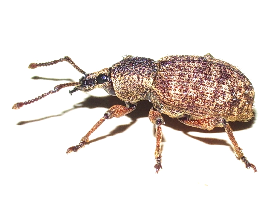 Otiorhynchus (weevil) pictured in house in Coatbridge, Scotland. Head to abdomen approximately 8 mm.